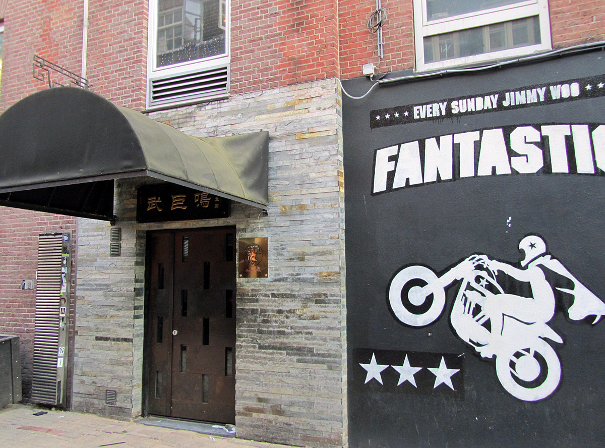 Entrance of club Jimmy Woo at Korte Leidsedwarsstraat nr. 18 in Amsterdam